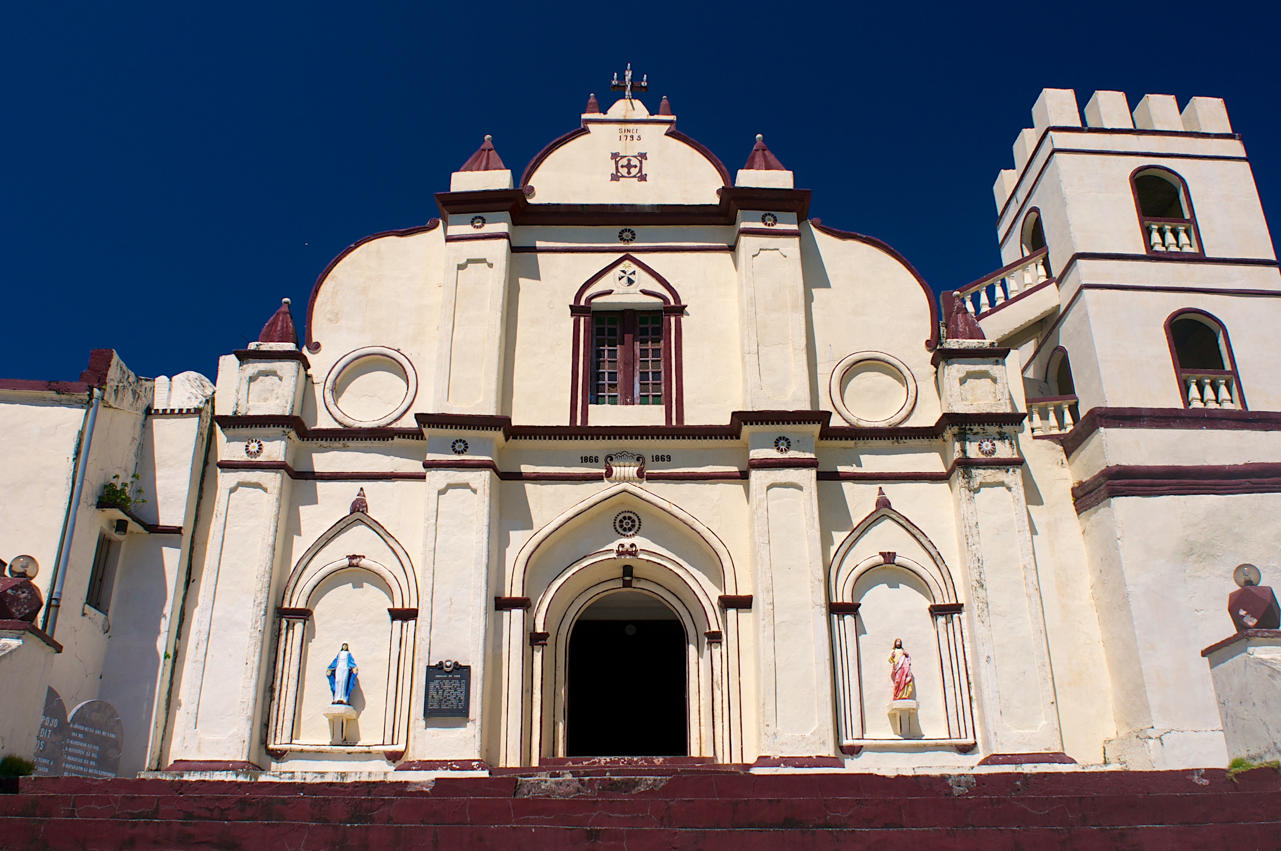 The Ivana Church of Batanes on a fine blue afternoon.